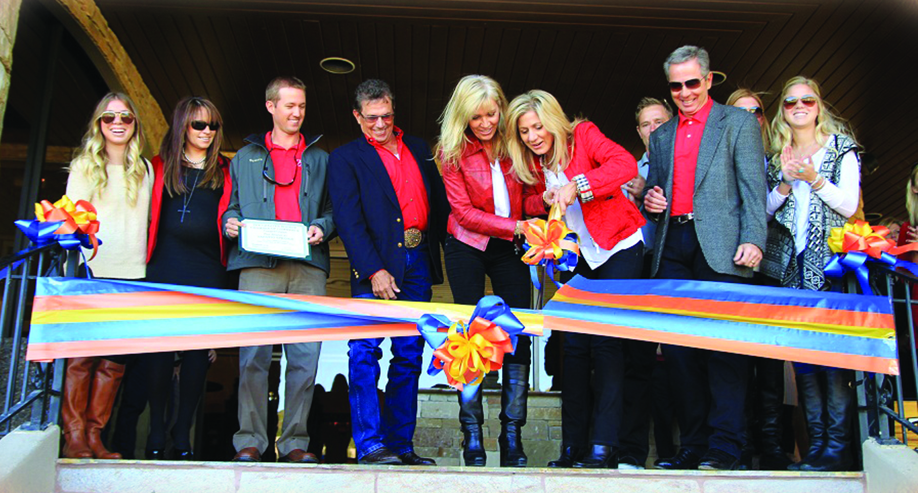 Ribbon Cutting Ceremony at Tapatio Springs Resort in Boerne, Texas grand opening. Owners, Friends, and Business Partners Tom P. Cusick, George Strait, and their families, 2011.